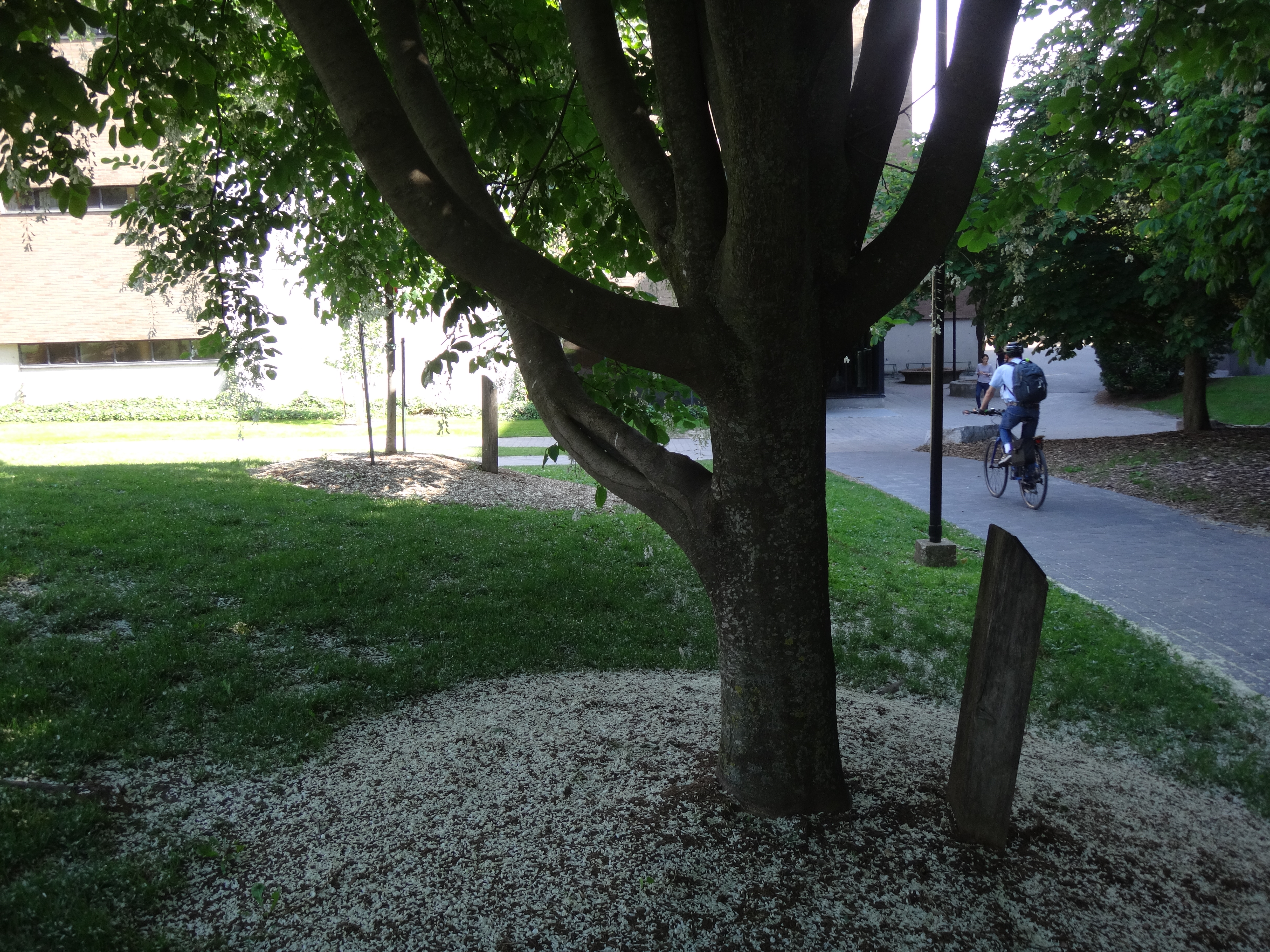 Yellowwood trunk. Branching happens closer to ground, a characteristic feature of this species. Location: University of Waterloo, Waterloo, Ontario, Canada